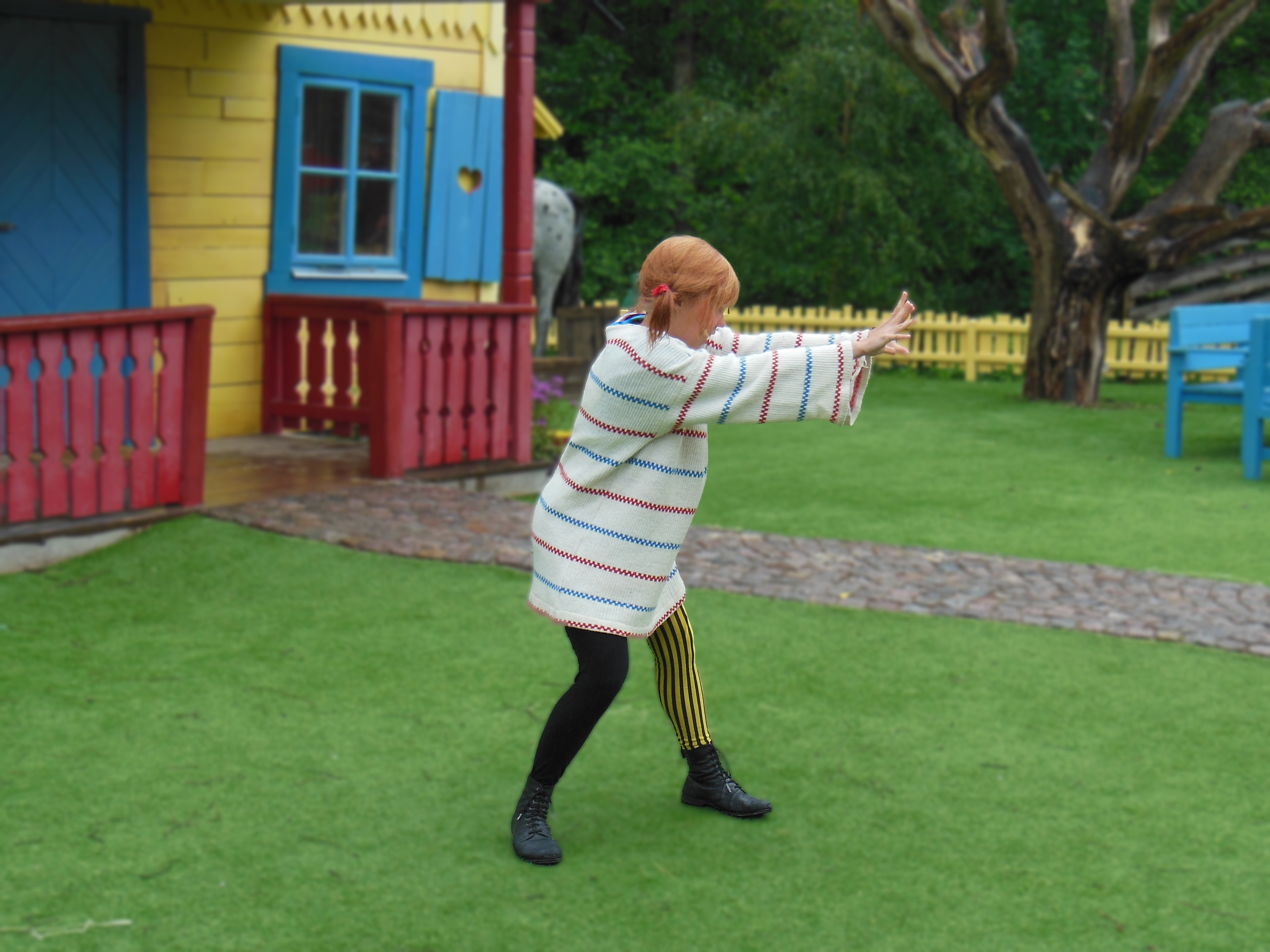 Pippi Longstocking at Astrid Lindgrens Värld, Vimmerby 2014.